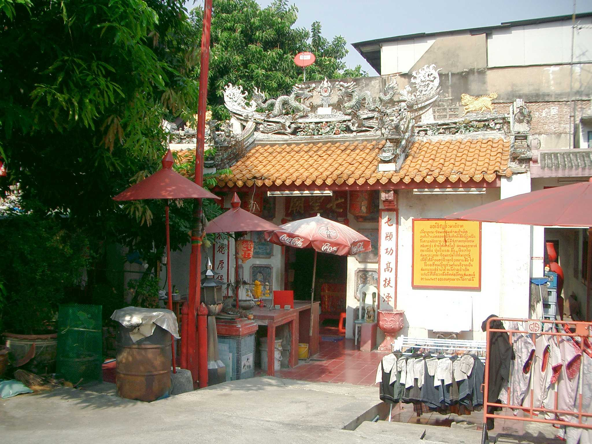 Main Hall, Wat San Chao Chet, Bangrak, Bangkok, Thailand